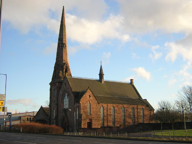 Bellshill West Church